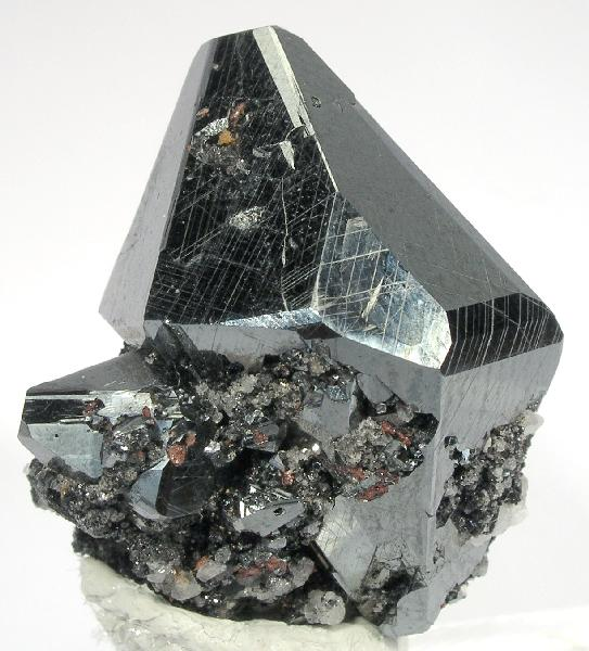 Hematite Locality: Wessels Mine (Wessel's Mine), Hotazel, Kalahari manganese fields, Northern Cape Province, South Africa (Locality at ) Size: thumbnail, 2.5 x 2 x 1.8 cm Hematite This thing is STUNNING, in both lustre and habit - and will put many people off to guessing , i think, before they judge it a hematite. It is a first-class thumbnail! The form is a rare pseudo-scalenohedral crystal habit. These come out but rarely in such quality and Marty picked one from a collection I got in the mid-90s, and has held it all this time. We think its an older piece, yet. The luster is mirror-likeand you can shave in the reflections; and the 2.5 cm length of the crystal is impressive as well - making it major as well as aesthetic. I have rarely seen a hematite thumbnail I loved, as much as this one, for its imposing form and size. MUCH BETTER IN PERSON, i assure you.